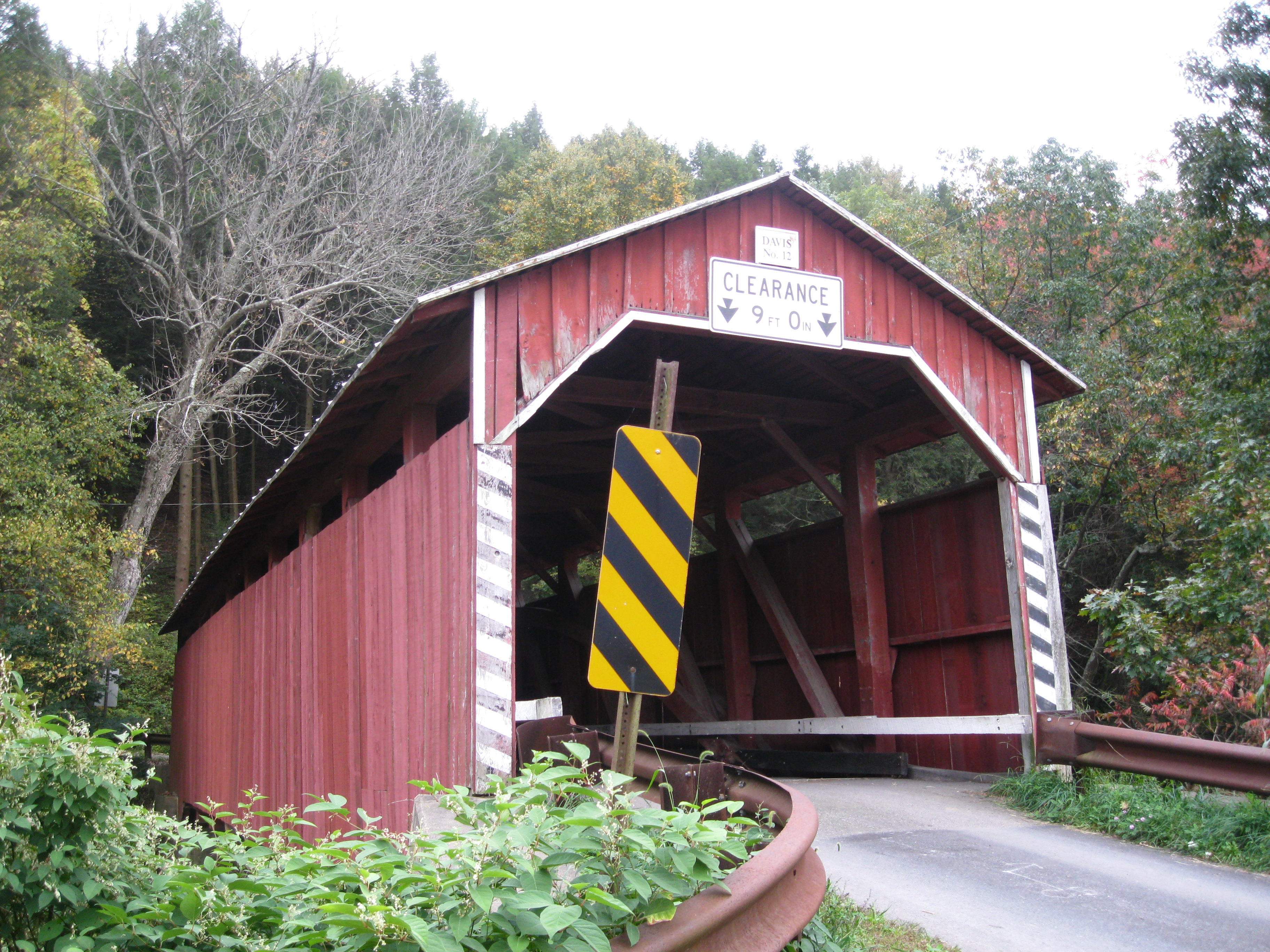 Davis Covered Bridge originally built in 1850 over the North Branch of Roaring Creek in Cleveland Township in Columbia County, Pennsylvania, in the United States.